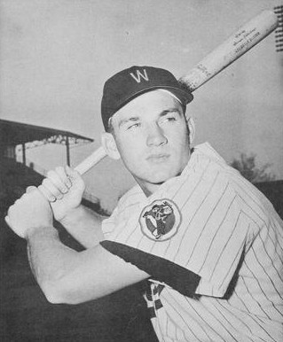 Professional baseball player Harmon Killebrew